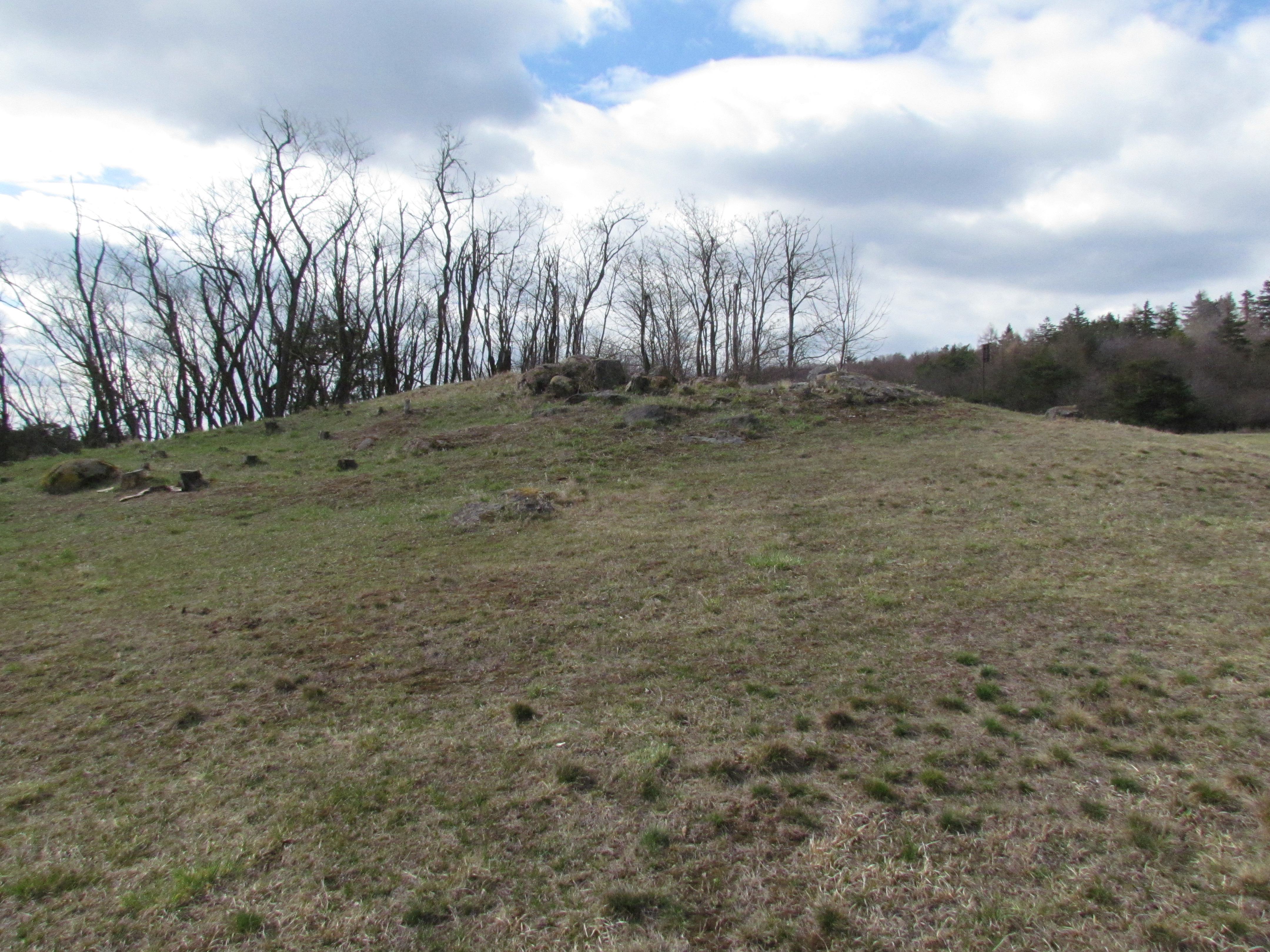 Detail of Klučovský kopec, Třebíč District, Czech republic.